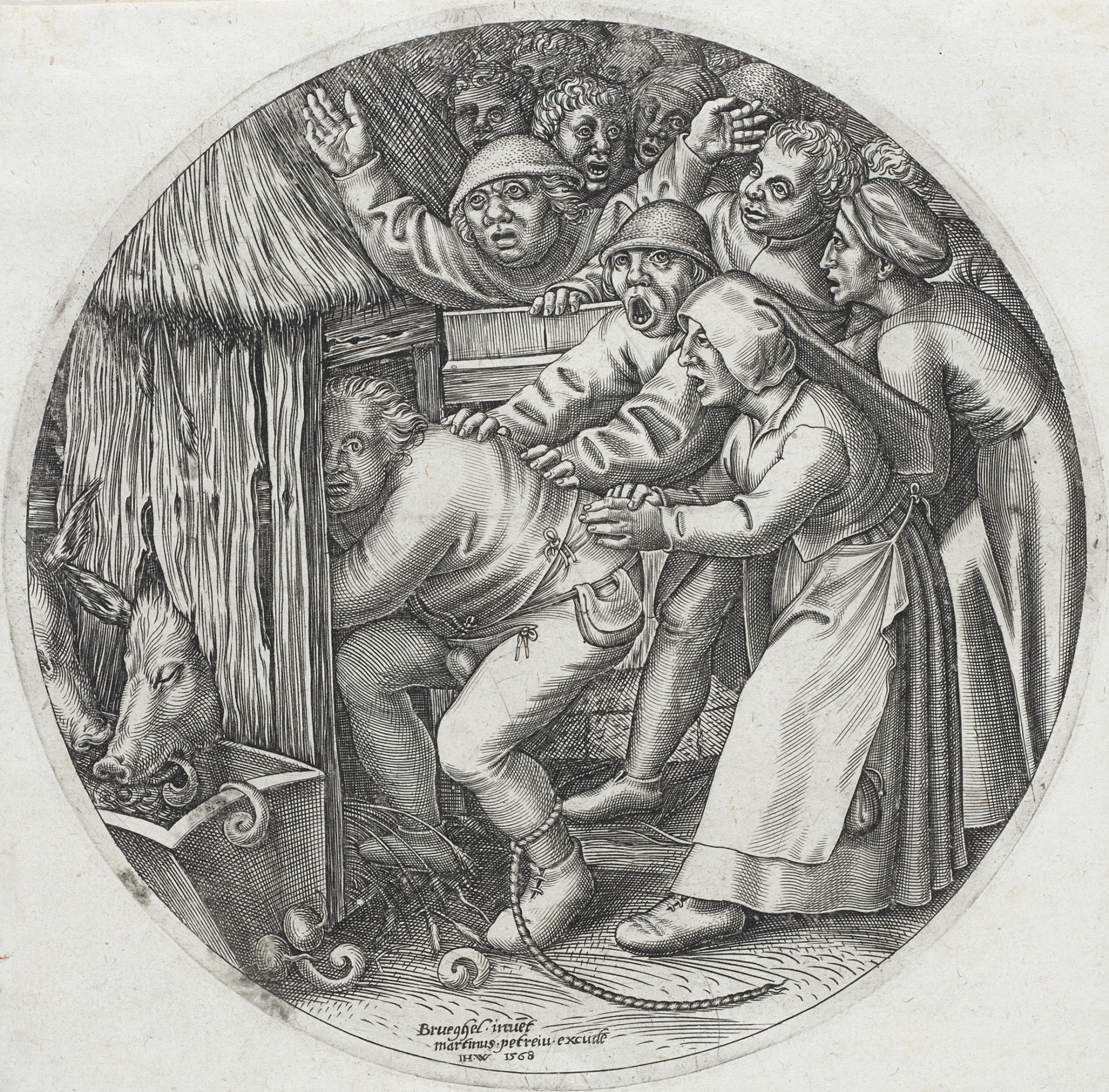 Flanders, 1568 Prints; engravings Engraving Los Angeles County Fund (58.21.1) Prints and Drawings